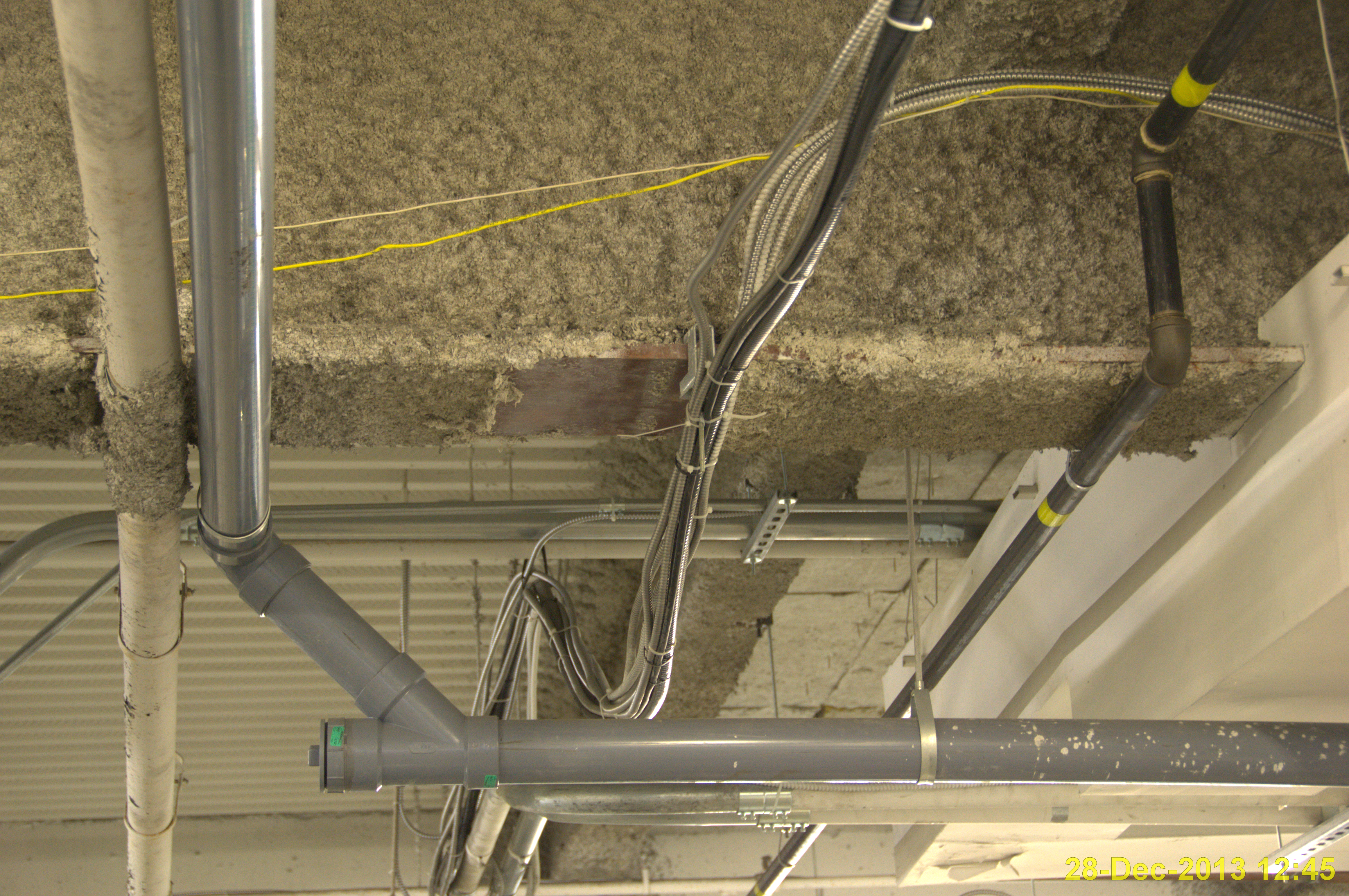 Damaged, spray fireproofing (made of rockwool and cement) at a Toronto car dealership.